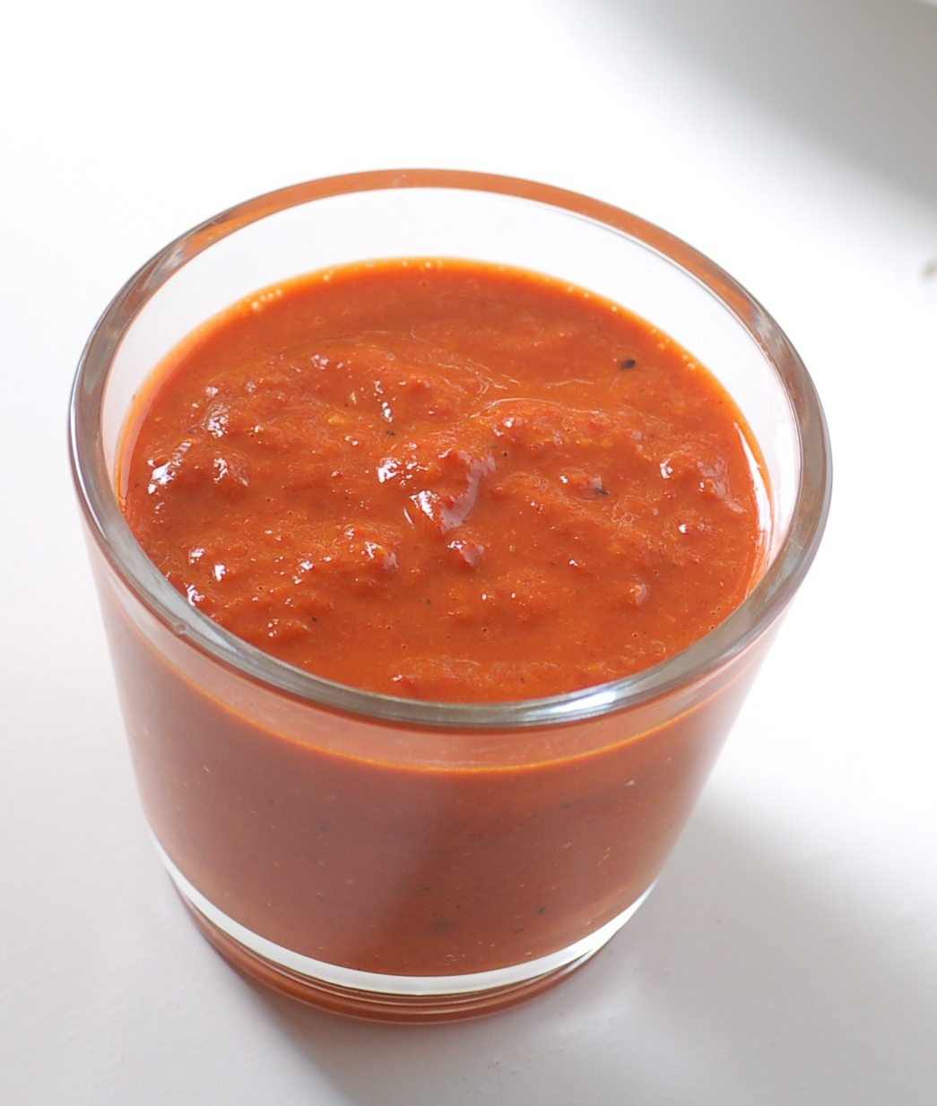 Mojo picon.